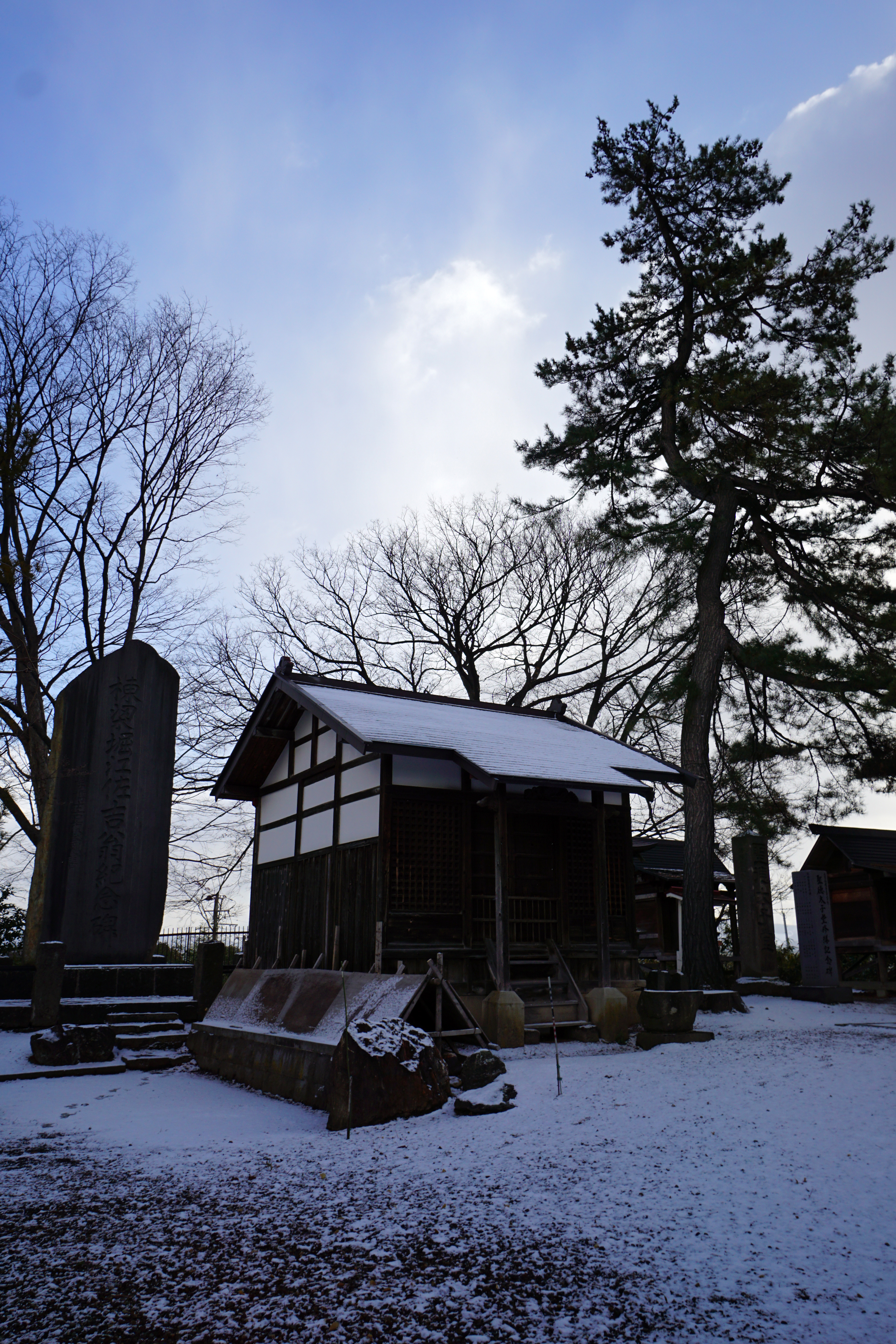 Saishō-in in Hirosaki, Aomori prefecture, Japan